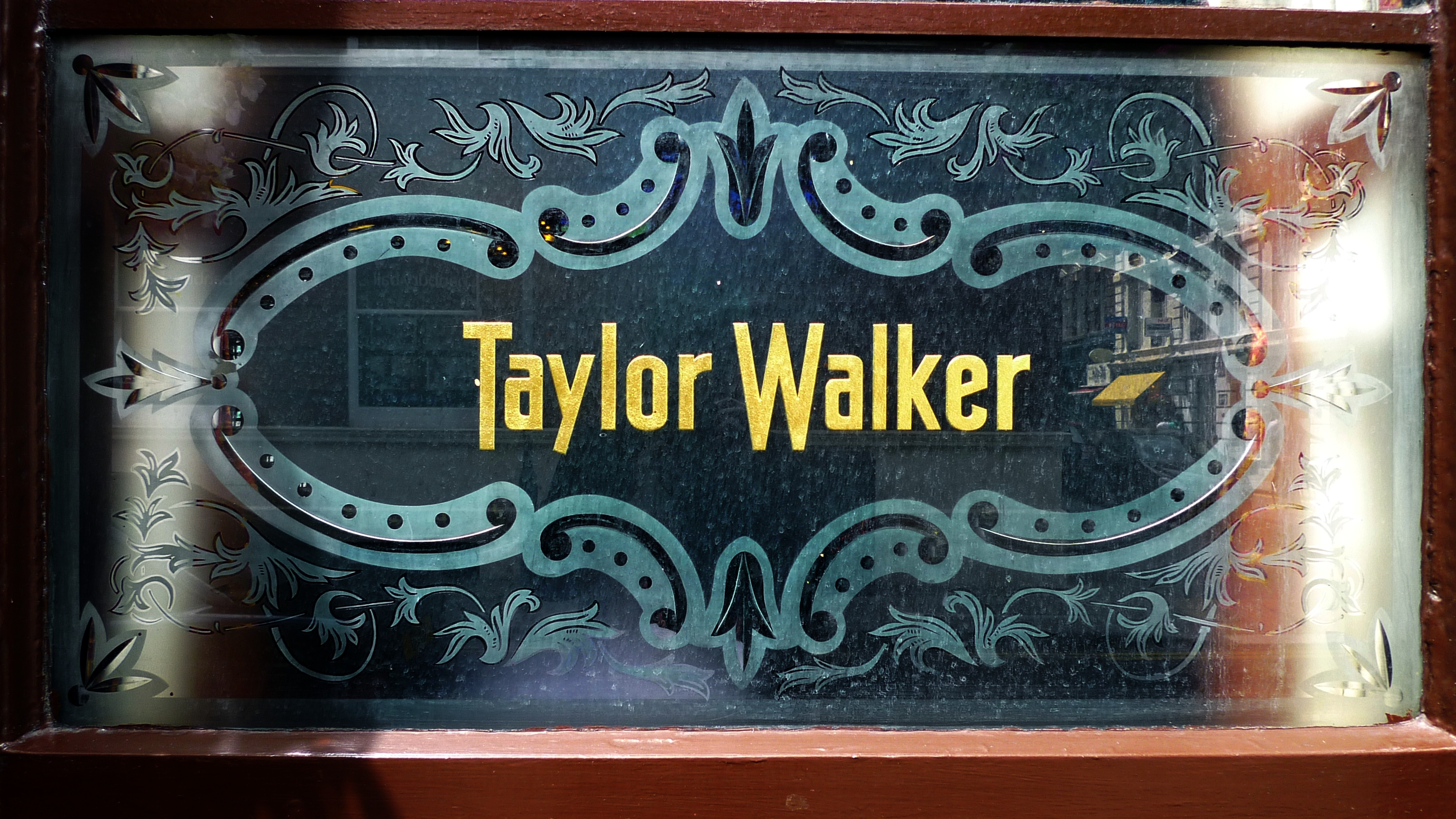 The old Taylor Walker windows in this decent pub near the British Museum. (View of pub.)